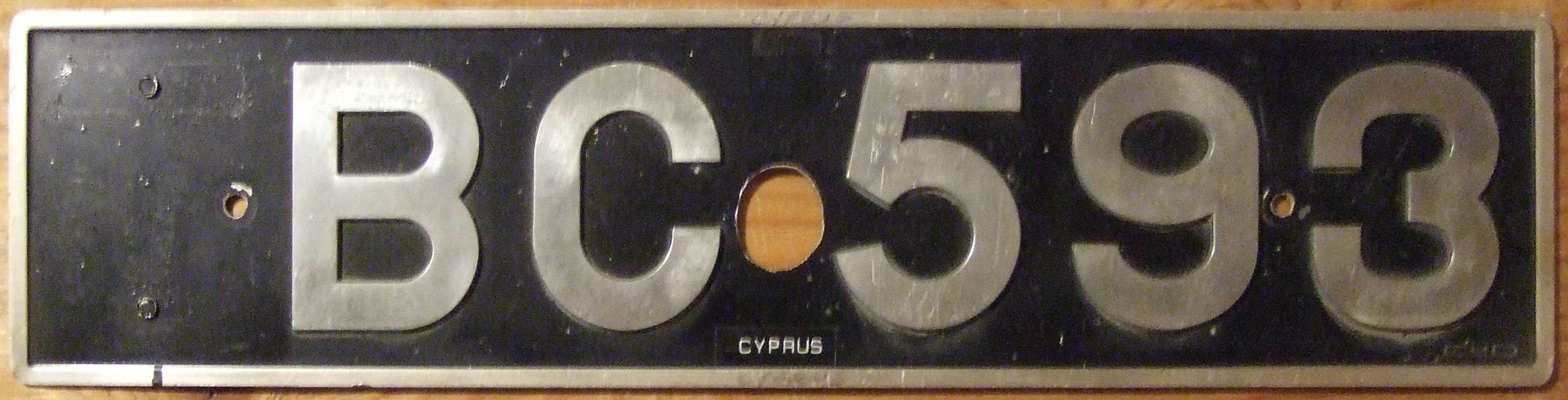 1950's/60's Cyprus license plate. Hole cut for a reflector? Also it looks like a "T" was removed. Maybe this plate which I received from Cyprus was used somewhere else before it was converted to a Cyprus plate.